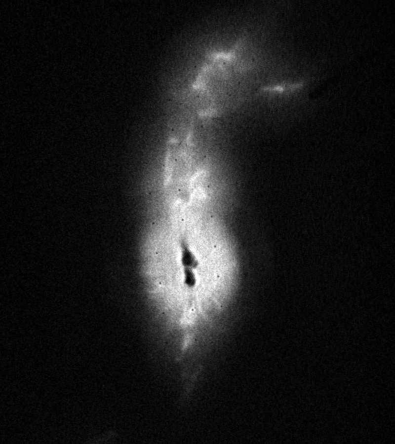 Symbotic Star R Aquarii